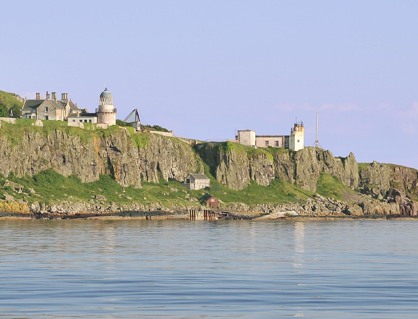 Lighthouses on Little Cumbrae. On the left the old one from 1793, replacing the even older one on the middle of the island, on the right the new one.